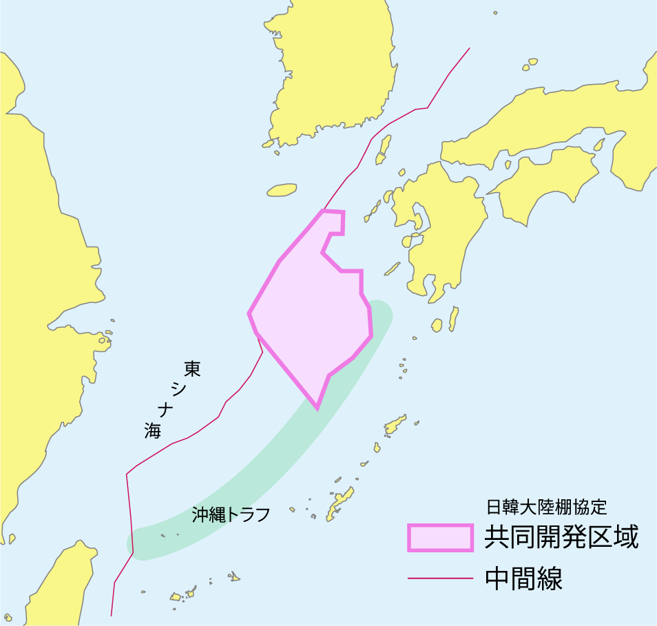 Japan Korea Joint Development Zone of 1978